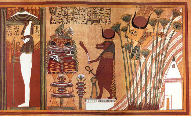 Book of the Dead: Closing vignettes (to spells 185 and 186) from the Papyrus of Ani